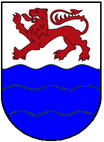 Coat of arms of Mammern, Canton of Thurgau, Switzerland